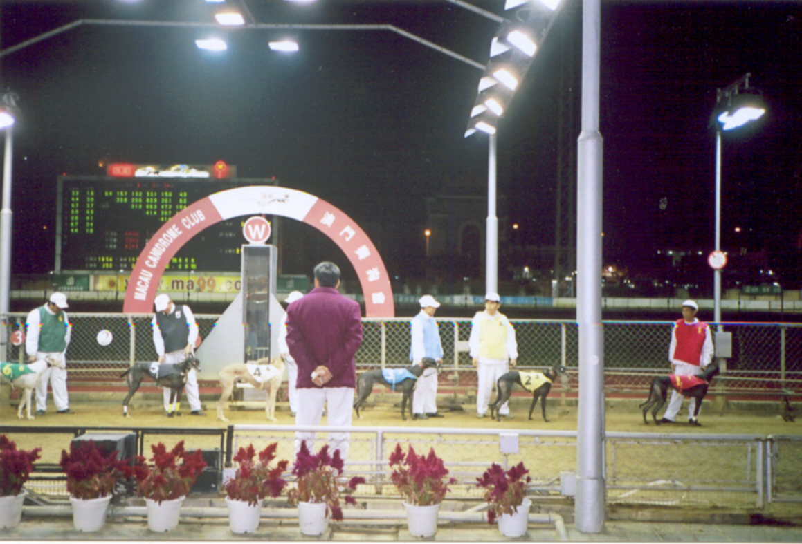 "Greyhound racing Canidrome" in Macau, the only "Greyhound Racing" stadium in Asia(2005)